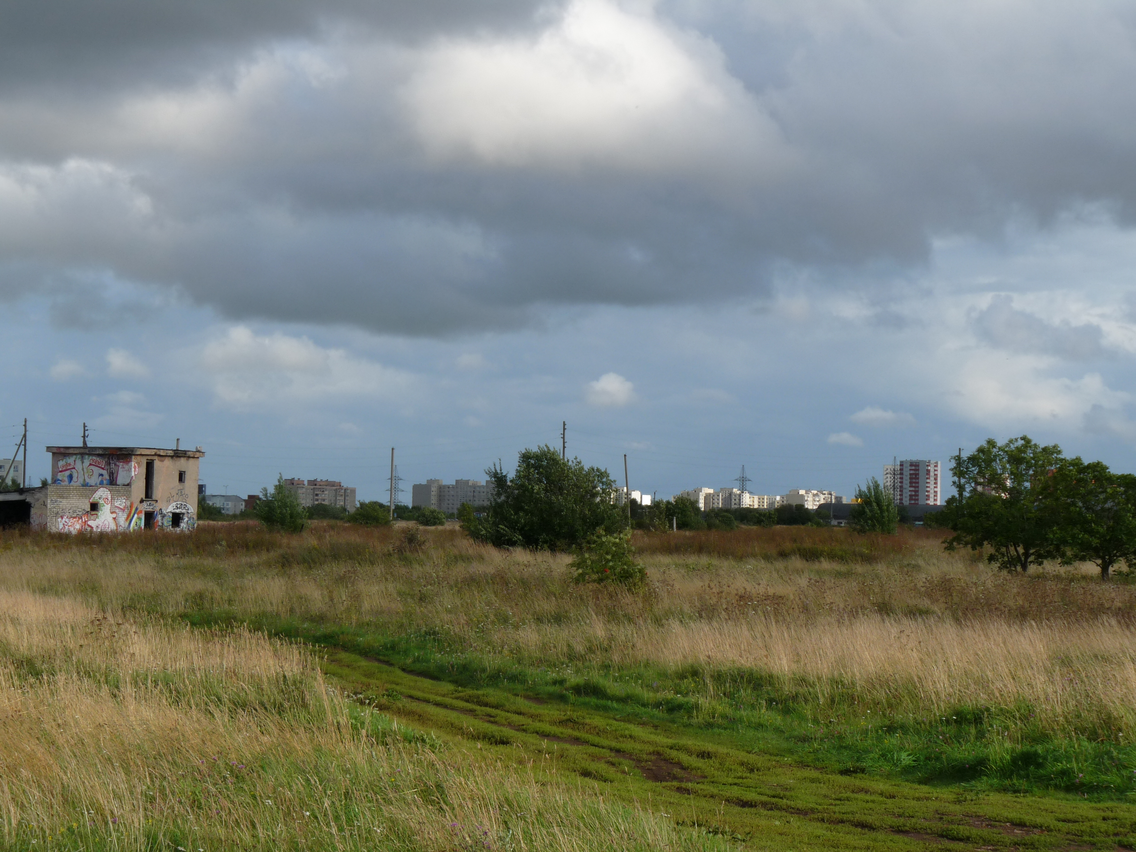 Ex-millitary base with ex-millitary airport in the north of Lasnamäe